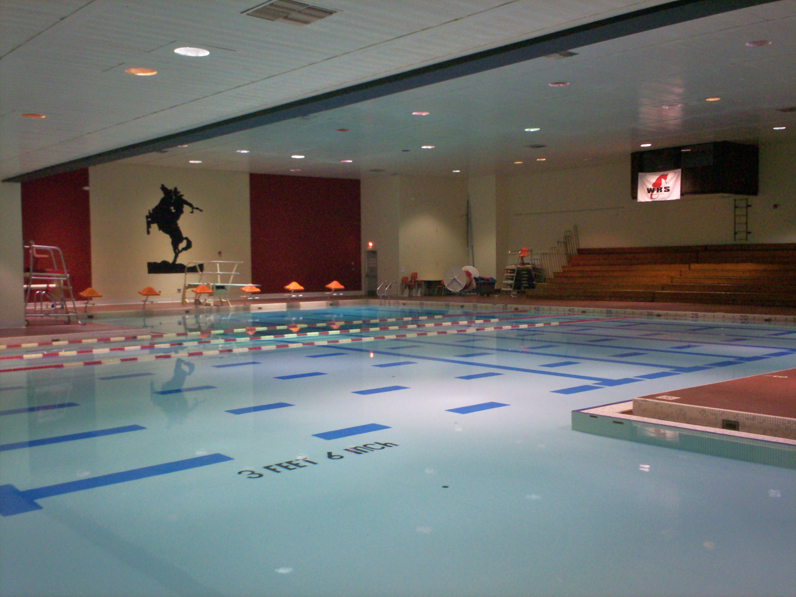 Indoor pool at Theodore Roosevelt High School in Kent, Ohio. The pool opened in 1976 and is used for physical education and the Roosevelt swim teams as well as local recreation and competitions.